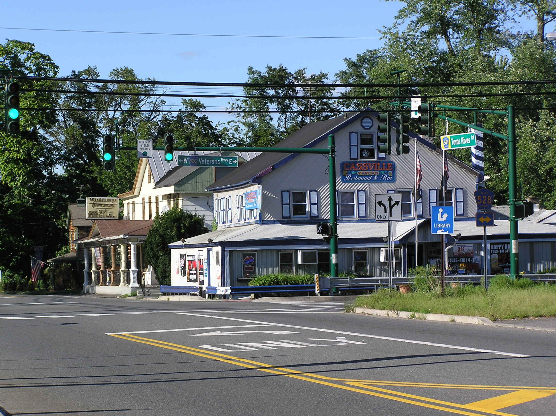 Cassville Crossroads Historic District, Jackson, NJ. The intersection of Ocean County Rt. 571 and Rt. 528, looking west on Rt. 571. The building on the corner is the Cassville Tavern.